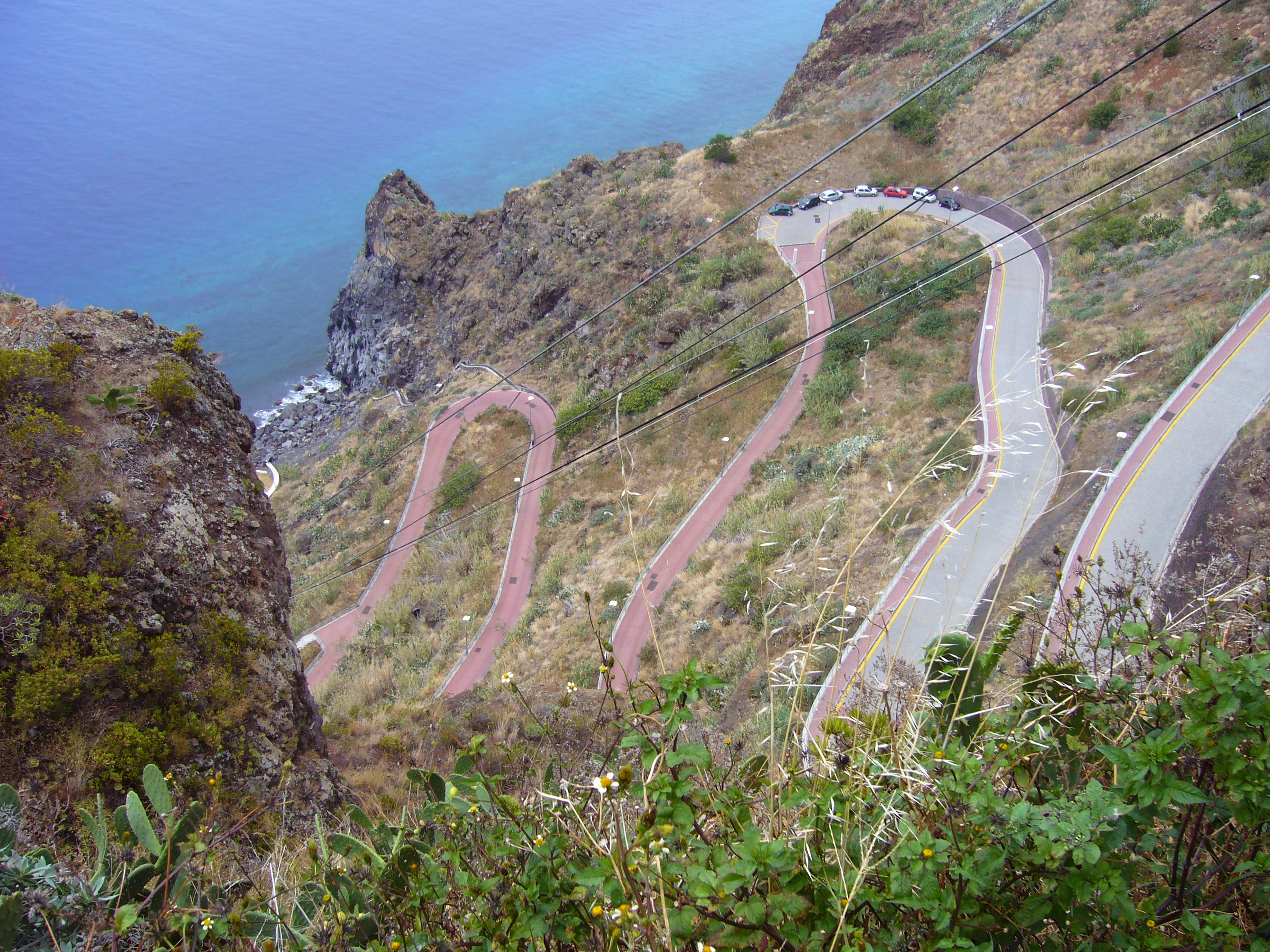 The Garajau cableway at Madeira.